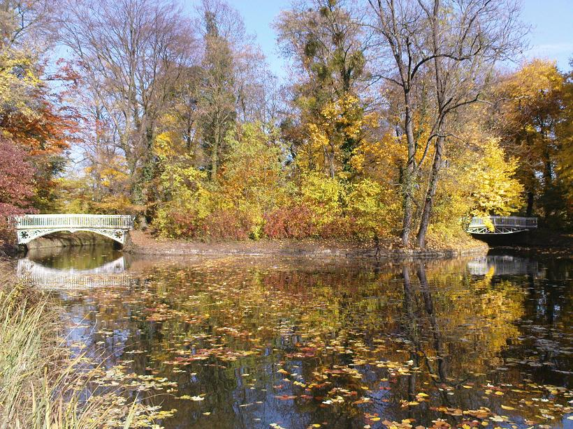 Herrnsheimer Schlosspark